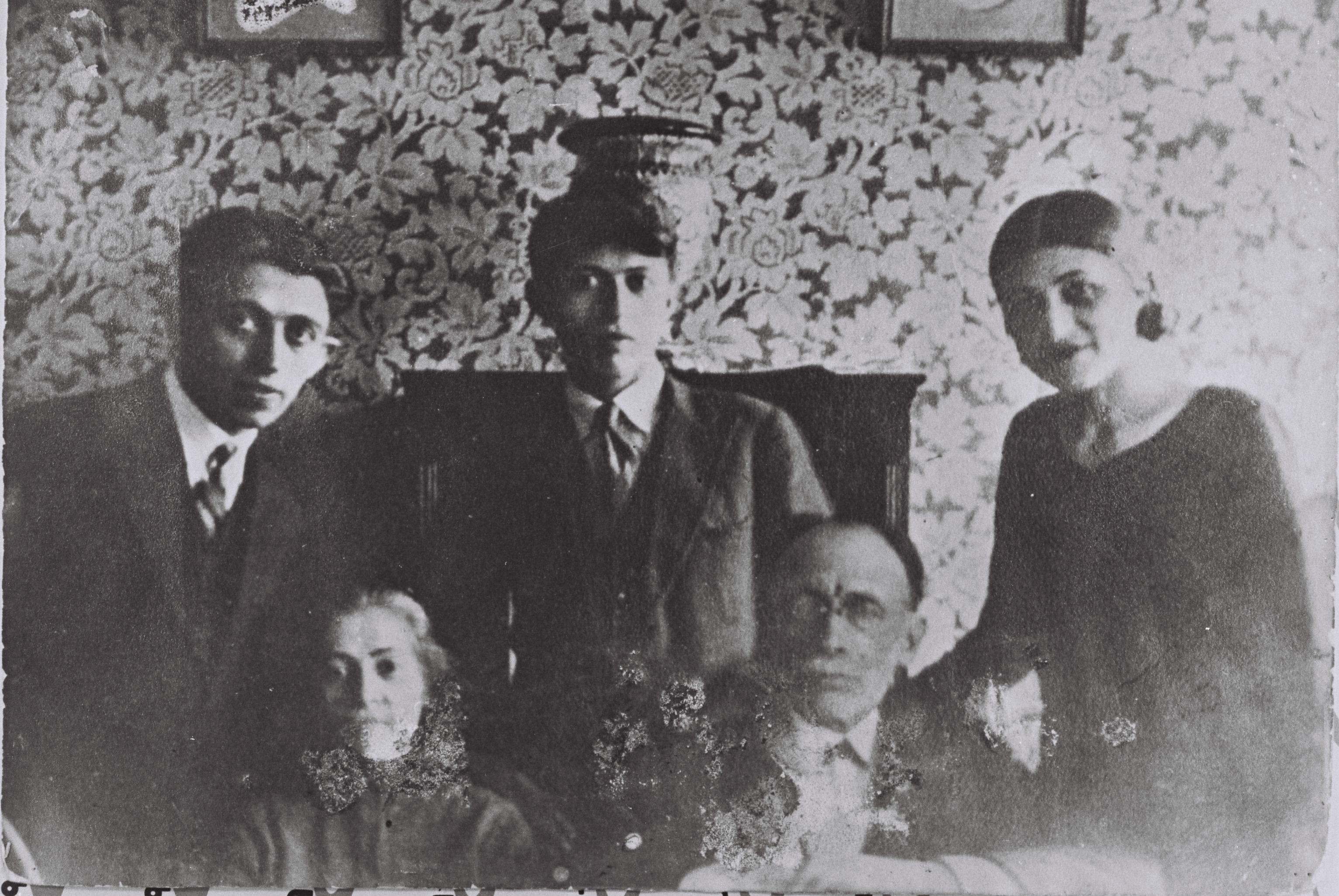 FAMILY PICTURE OF MENAHEM BEGIN (TOP L) WITH SISTER RACHEL AND LATE BROTHER HERZL WITH THEIR PARENTS IN THEIR HOME TOWN IN POLAND. תצלום משפחתי של מנחם בגין ( משמאל למעלה) עם אחותו רחל, אחיו המנוח הרצל והוריו, בעיר מולדתם בפולין.